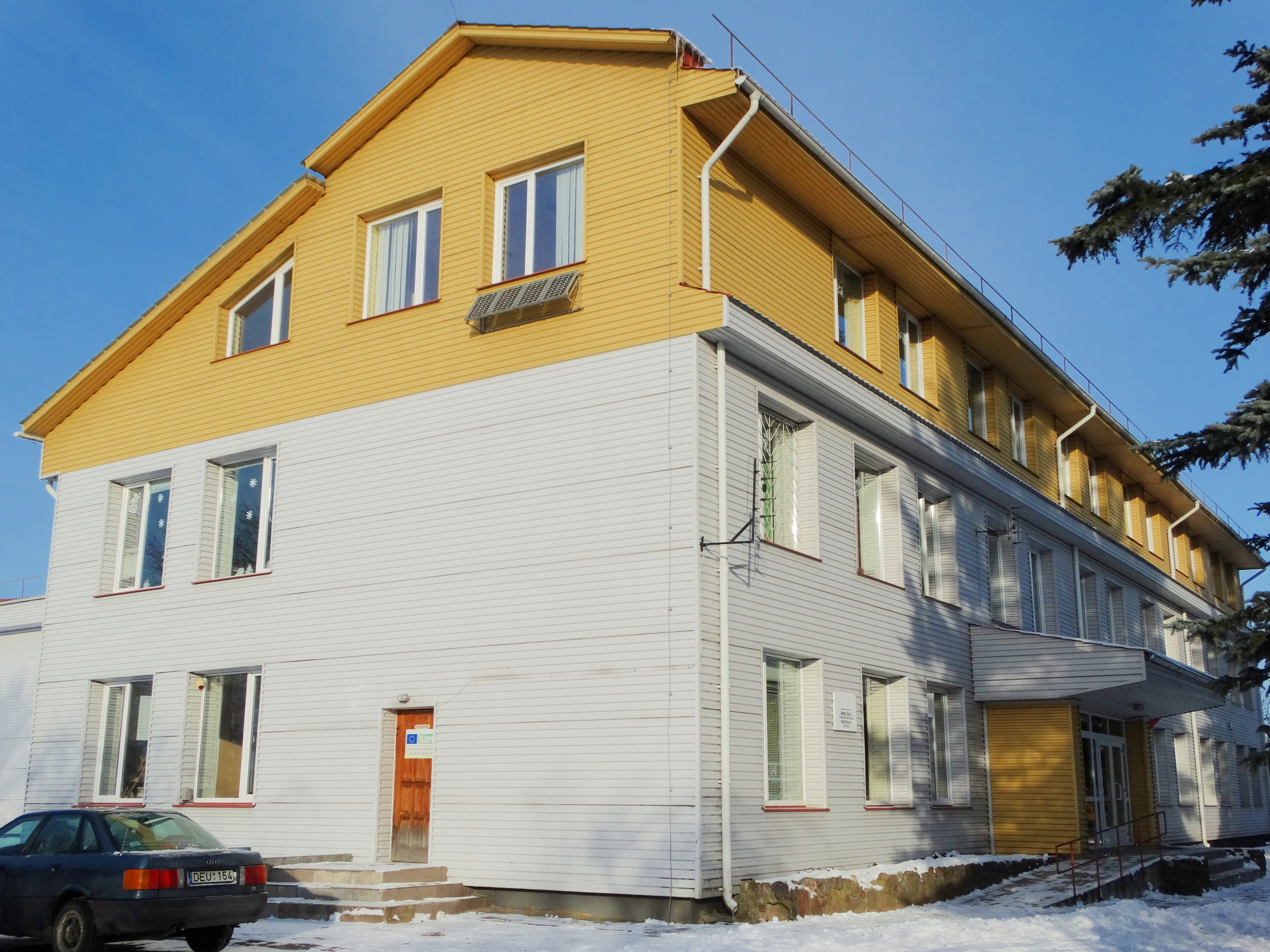 School, Pastrėvys, Elektrėnai Municipality, Lithuania